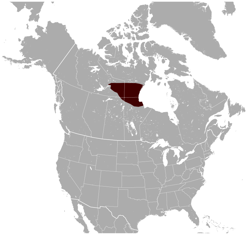 Geographical distribution of the Richardson's Collared Lemming Dicrostonyx richardsoni. The map was created using the Generic Mapping Tools, GMT, version 5.1.1.